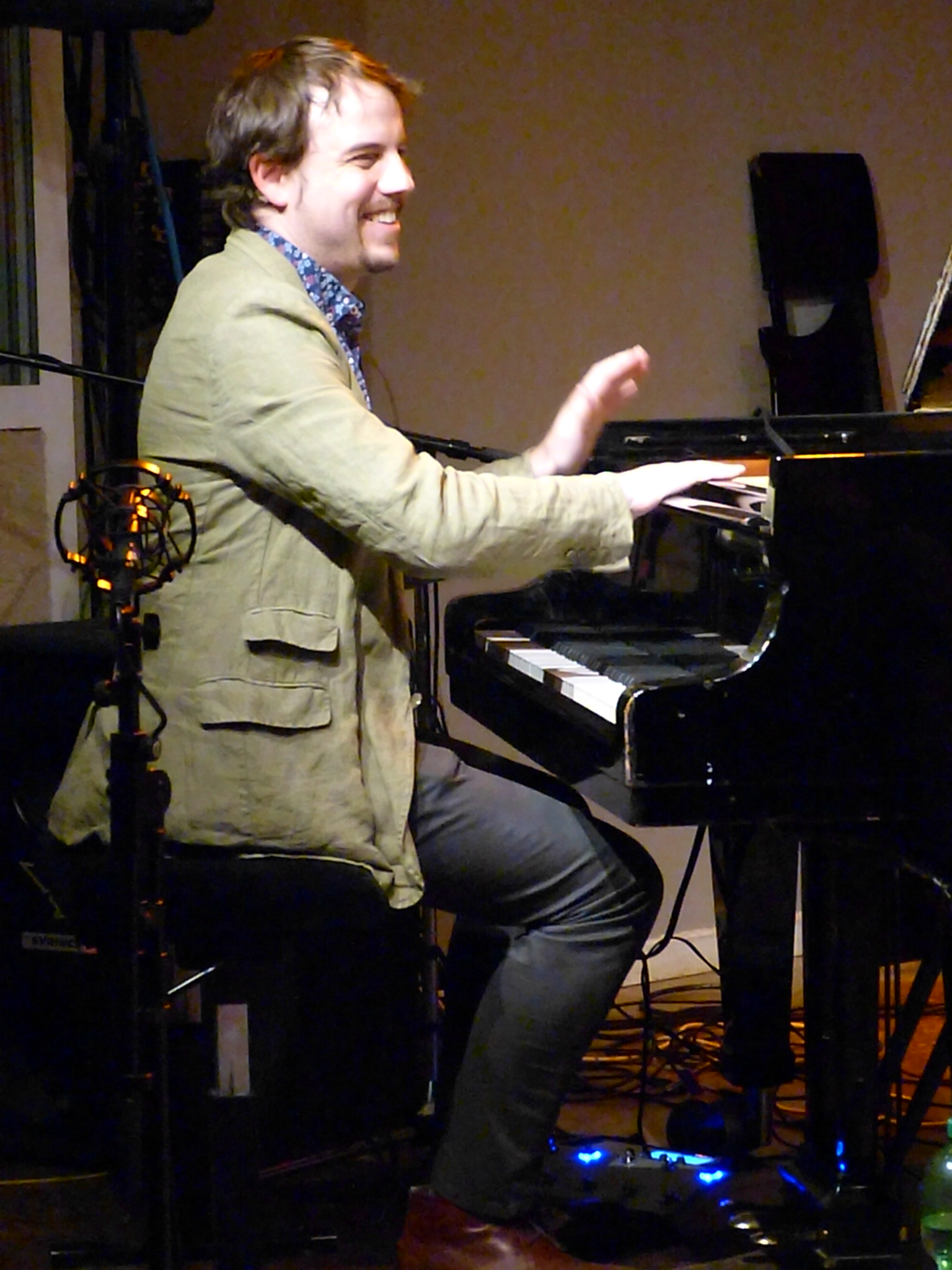 Daniel García Diego in concert of the "Daniel García Diego Trio" (with Reinier Elizarde (b), and Michael Olivera (dr)) at Loft (Cologne), Germany, May 9th, 2019